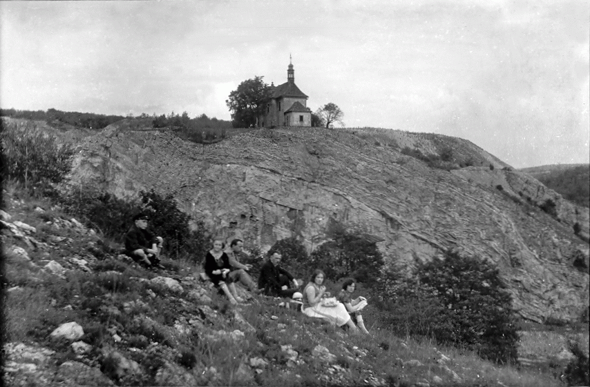 The church of St. Prokop (in Prague in Daleje Valley) was built at the top of the limestone rocks in the Baroque style by Pavel Ignác Bayer with the financial support of Adam Schwarzenberg from 1711 to 1712. Eleven years later (1723) a part of the ship was added to the church. The last construction changes of the church took place in 170 years (1893). Destruction of the rock masses in 1890 led to situation that the church was at the edge of the limestone quarry. During the Second World War, the Germans built an underground buildings in the mined quarry areas. After the end of World War II, the Czechoslovak army took over the undergroud buildings and began to use it for military purposes. The church was included in the public inaccessible military guarded area. For reasons of broken statics (and the danger of spontaneous collapse) he was demolished in 1966.